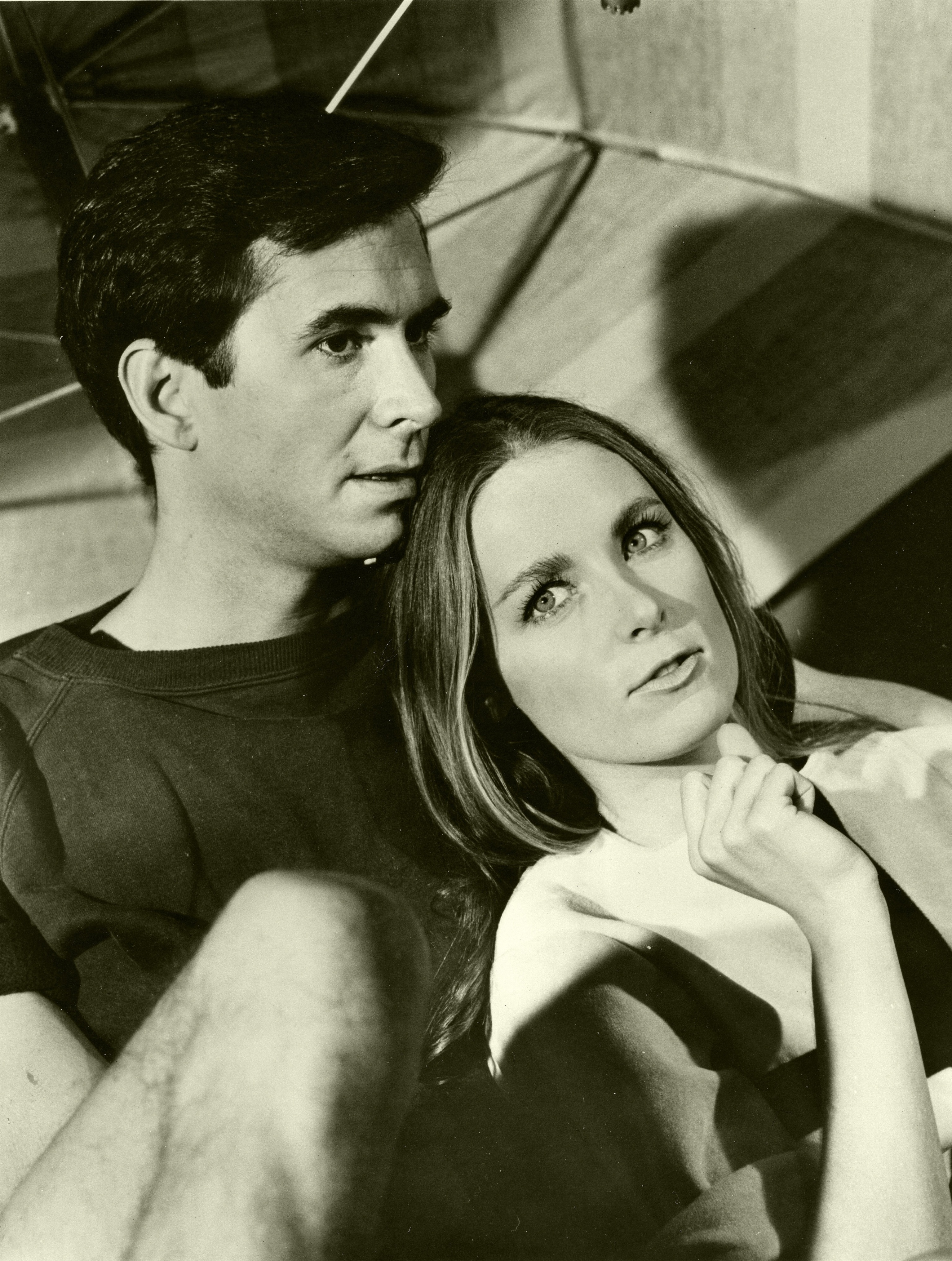 Publicity photograph of Evening Primrose, aired originally on Wednesday, November 16, 1966, 10-11pm EST/PST, as part of ABC Stage 67. Pictured cast were Anthony Perkins and Charmian Carr.